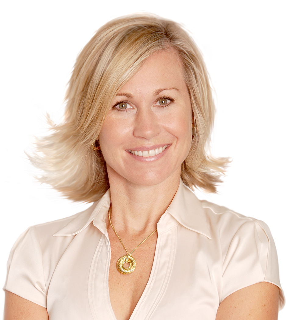 photo of Jennifer Keesmaat, Chief Planner of the City of Toronto